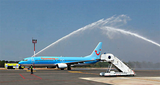 Scarlett Martinez International Airport